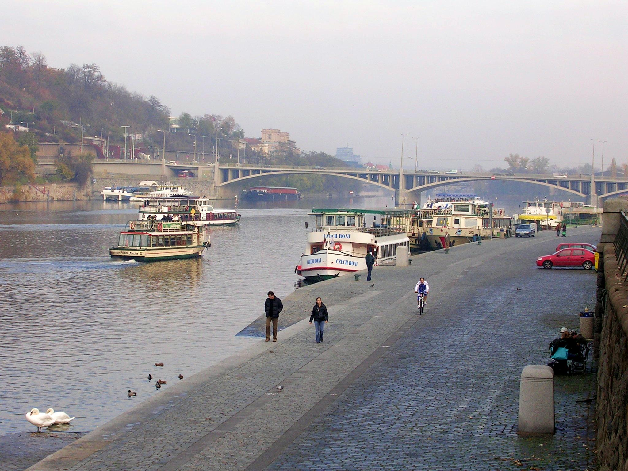 Prague, boats at Vltava River.